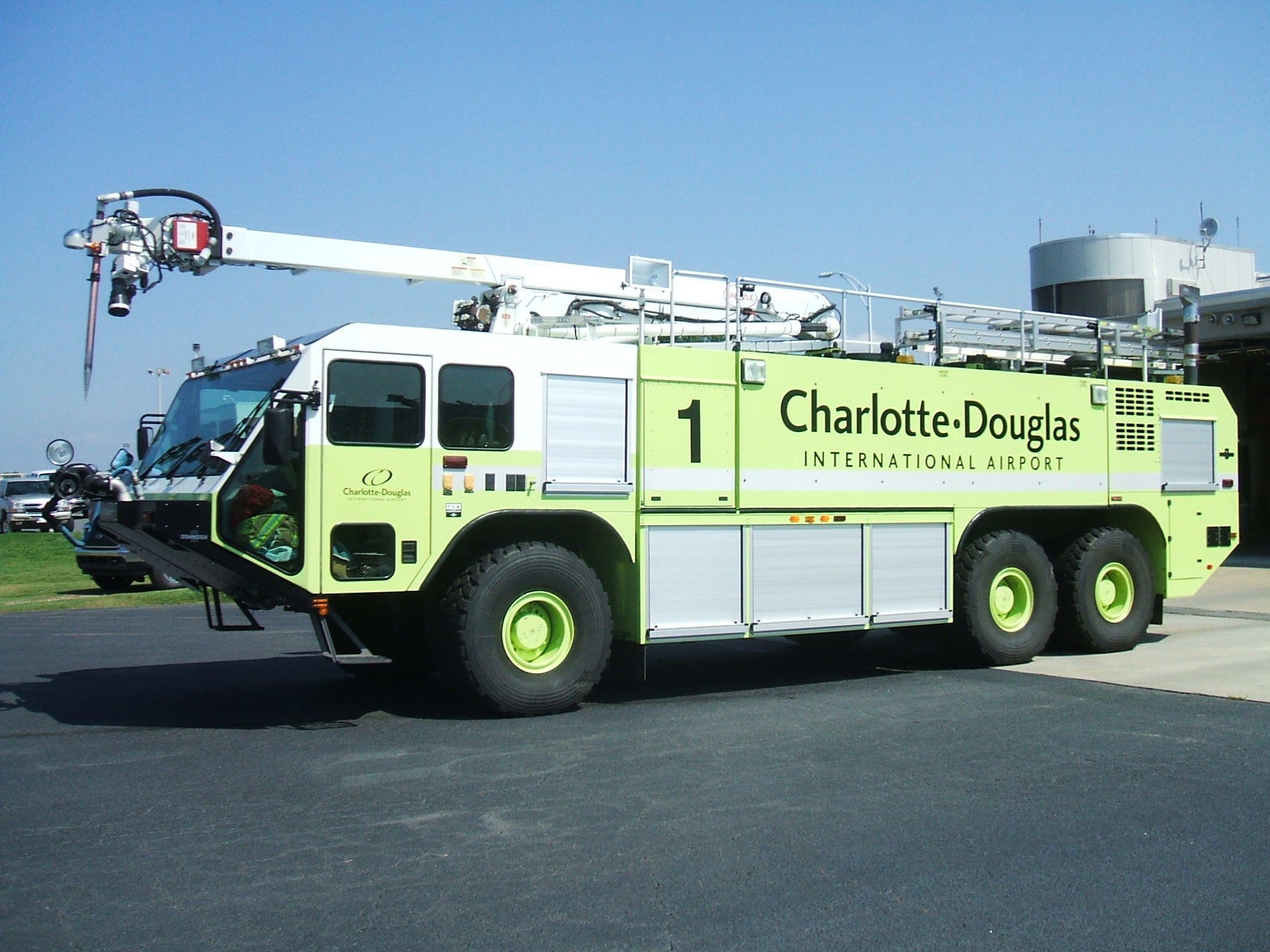 2006 Oshkosh/Striker 3000